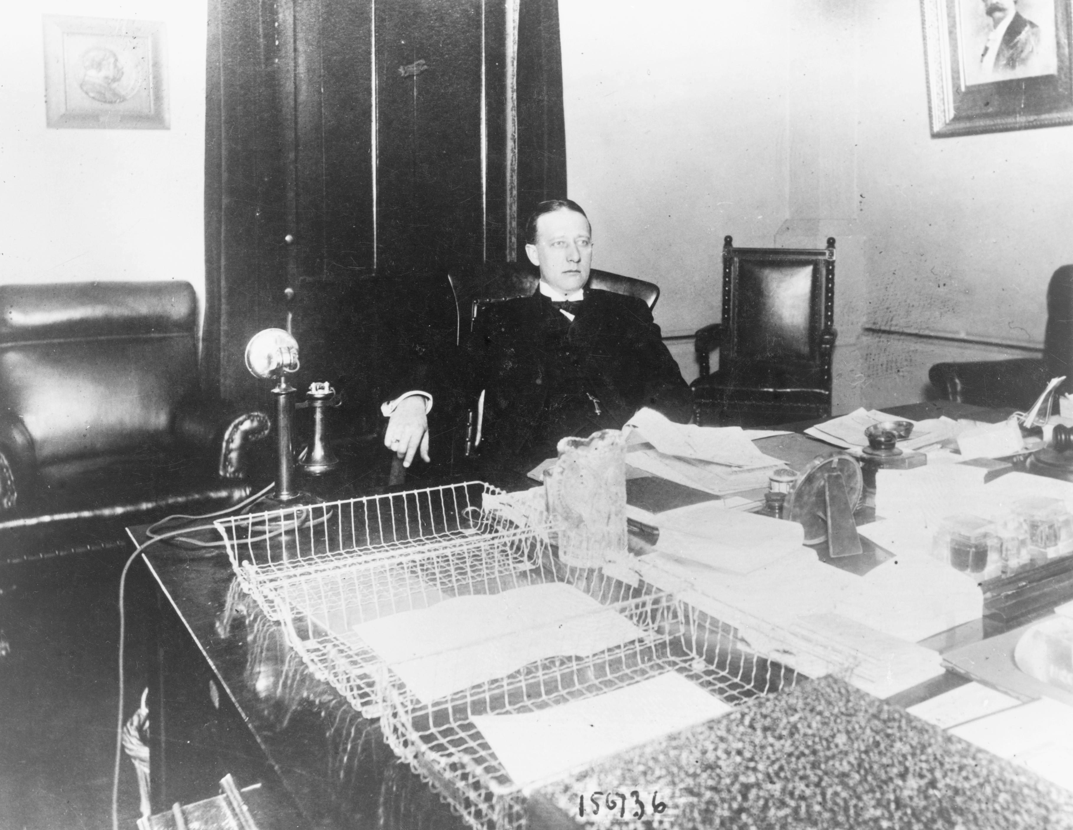 Al Smith seated at his desk as a New York State Senator, 1913